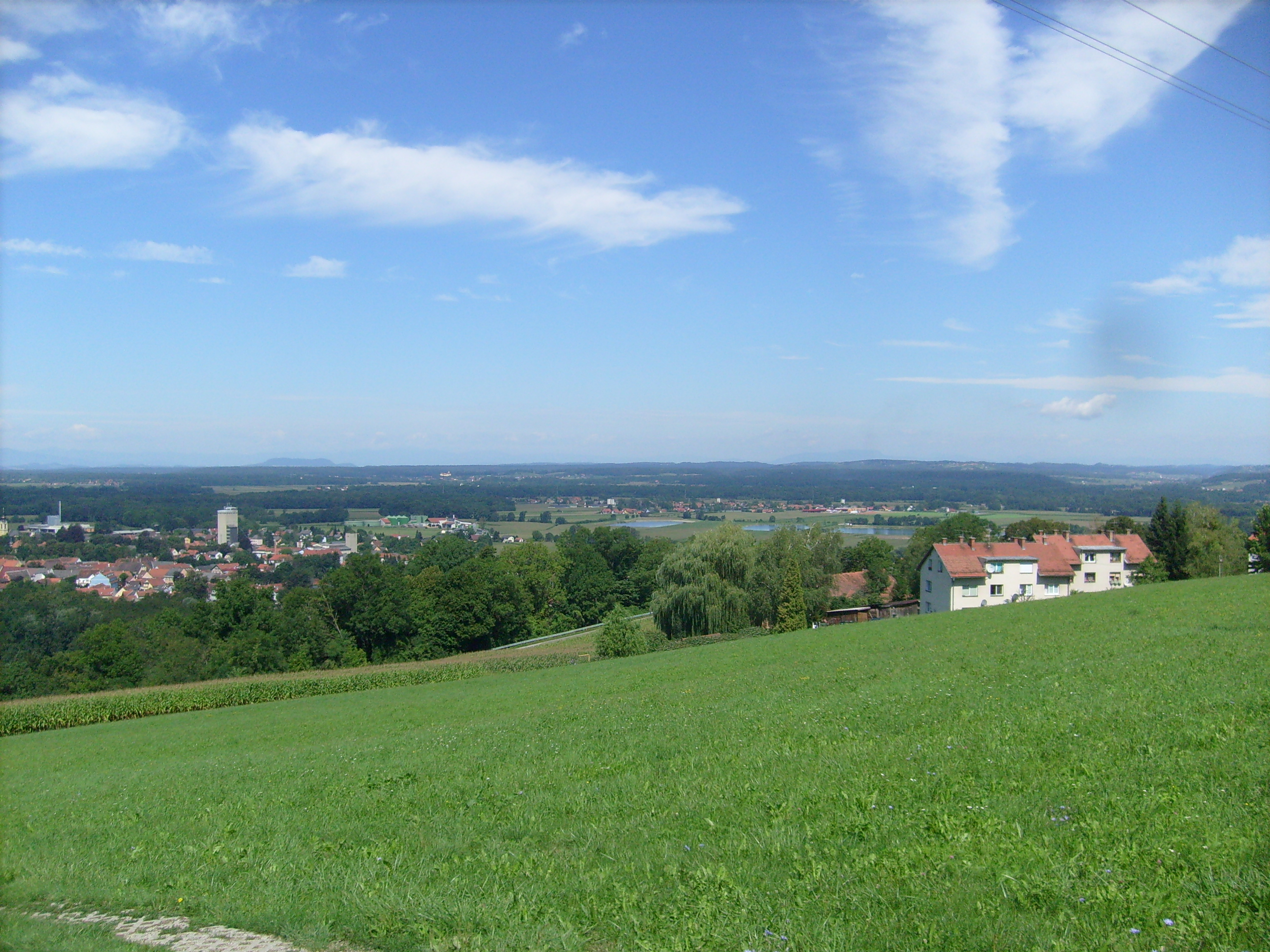 Trate